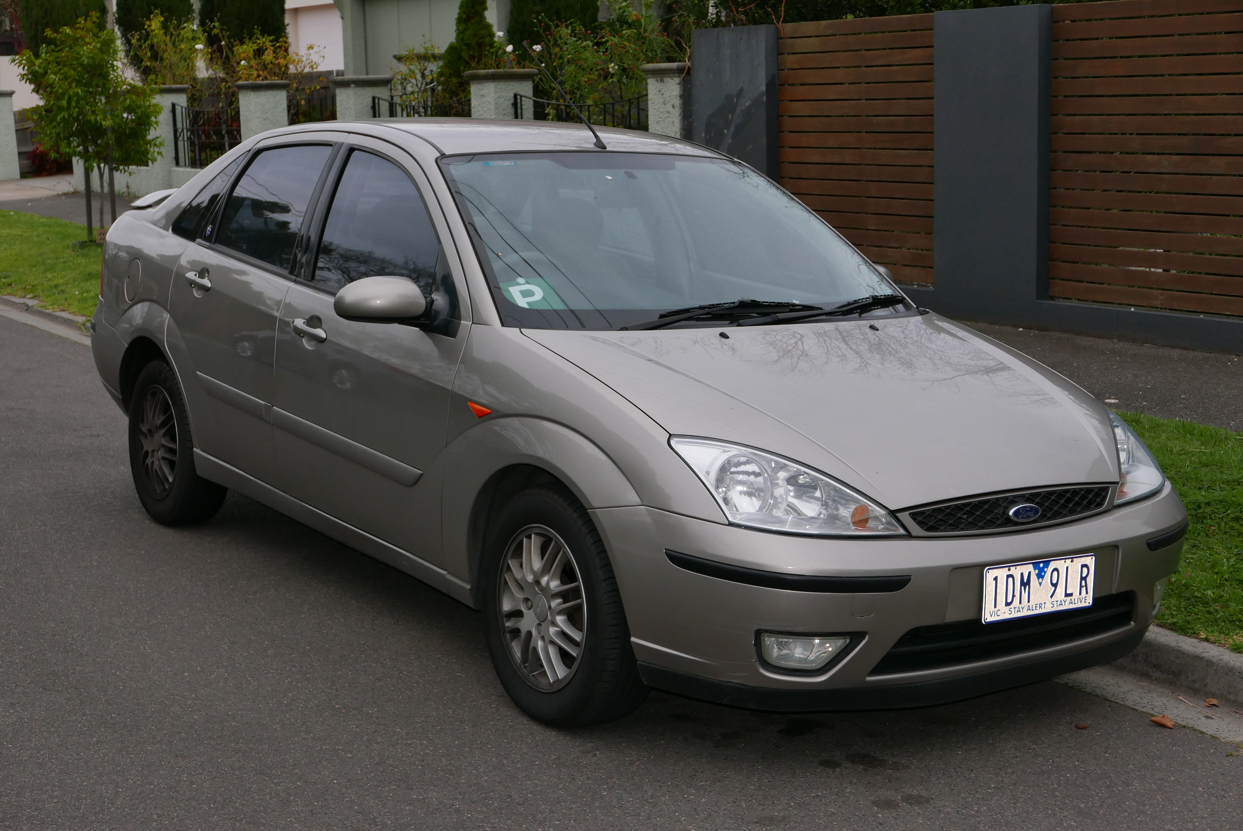 2003 Ford Focus (LR MY03) Ghia sedan. Photographed in Brighton, Victoria, Australia. Vehicle registration enquiry resultsJurisdictionVictoriaRegistration1DM9LRChassis codeWF0FXXWPDF3E74124Engine codeEDDB3E74124Compliance date2003-06Year of manufacture2003